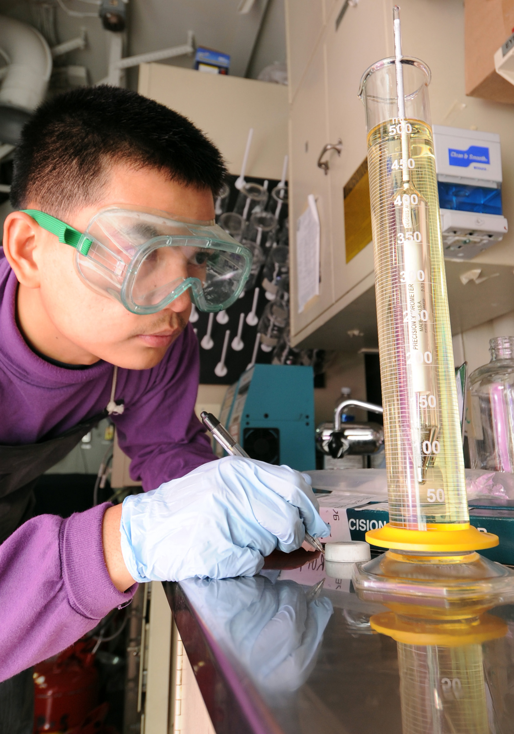 PACIFIC OCEAN (Oct. 5, 2011) Aviation Boatswain's Mate (Fuel) 3rd Class Rolando Calilung tests for a specific gravity test on JP-5 fuel aboard the amphibious assault ship USS Makin Island (LHD 8). Makin Island is part of the Makin Island Amphibious Readiness Group and is underway for a certification exercise preparing for an upcoming deployment. (U.S. Navy photo by Mass Communication Specialist 1st Class Sarah Murphy/Released)